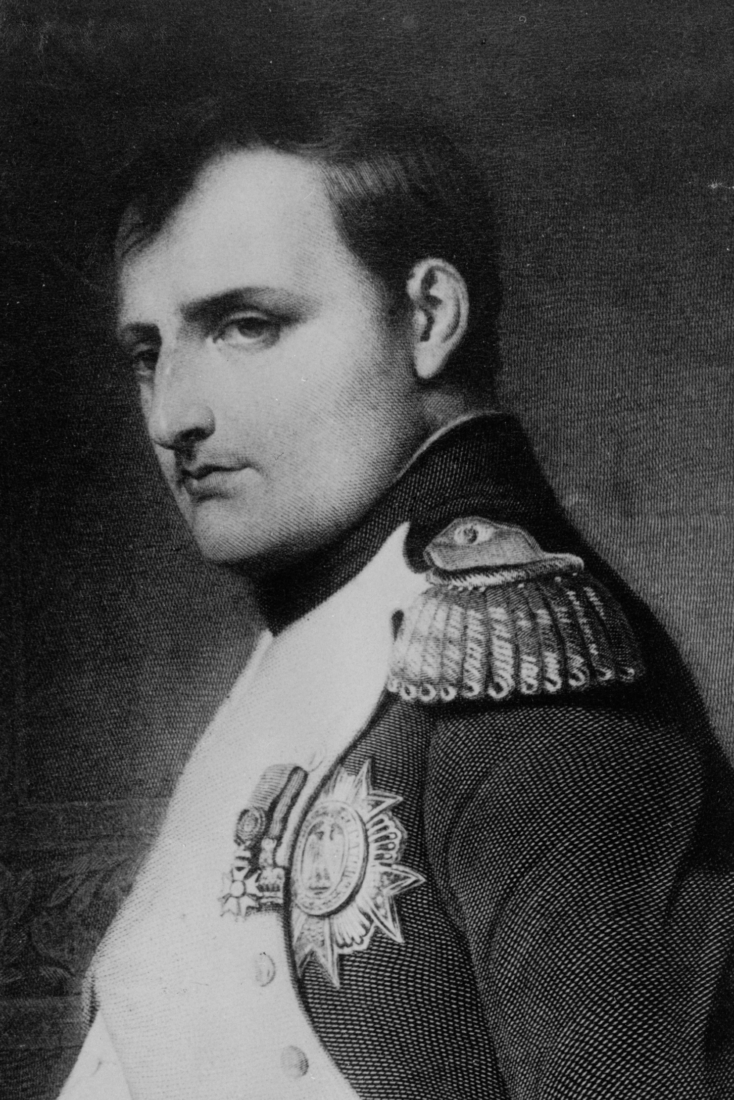 Napoléon Bonaparte (1769-1821), half-length portrait, facing left.